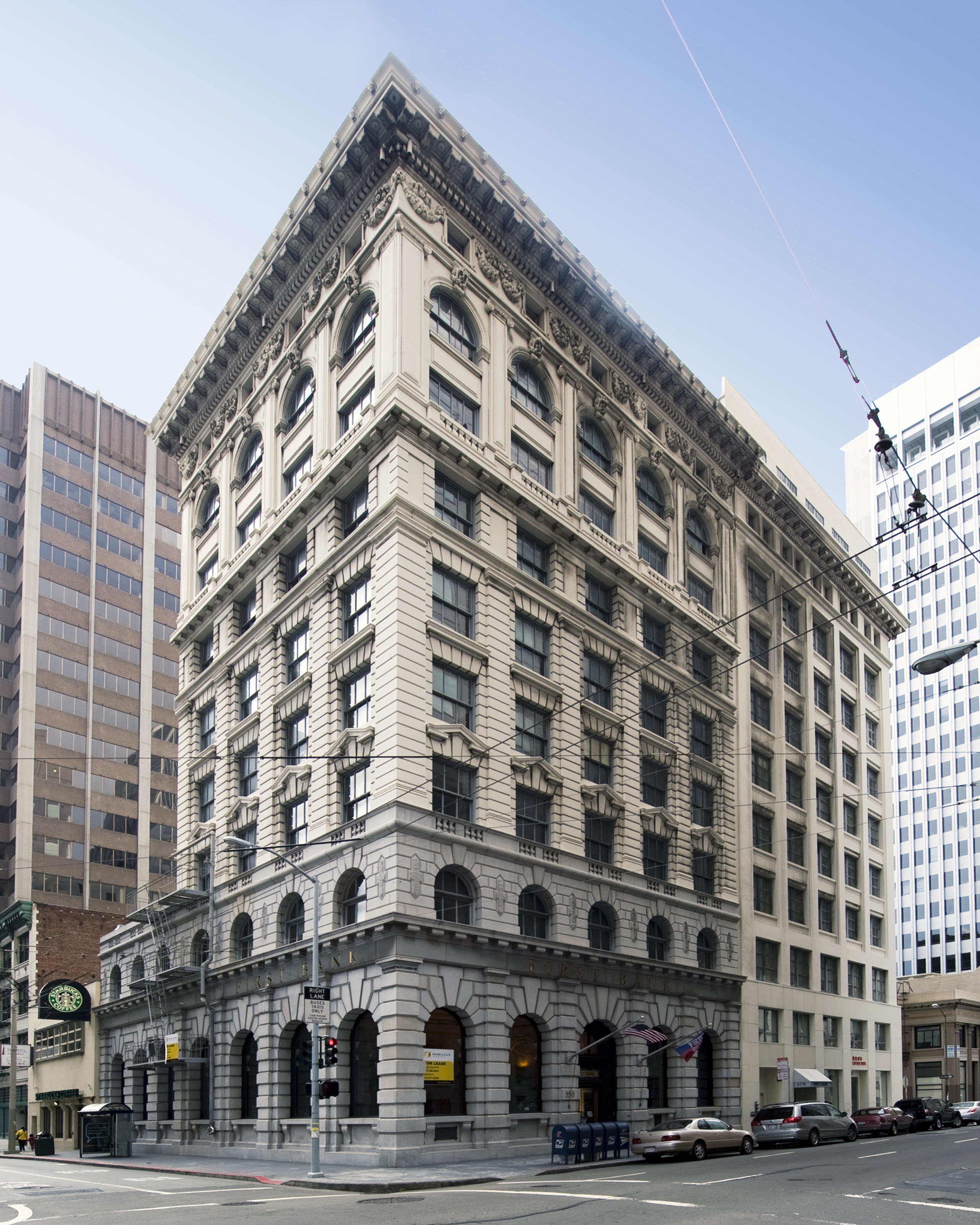 Bank of Italy, San Francisco, added to the National Register of Historic Places in 1978. From 1908 to 1921, this eight story, Second Renaissance Revival structure in San Francisco's financial district served as headquarters for Bank of Italy (later renamed Bank of America).